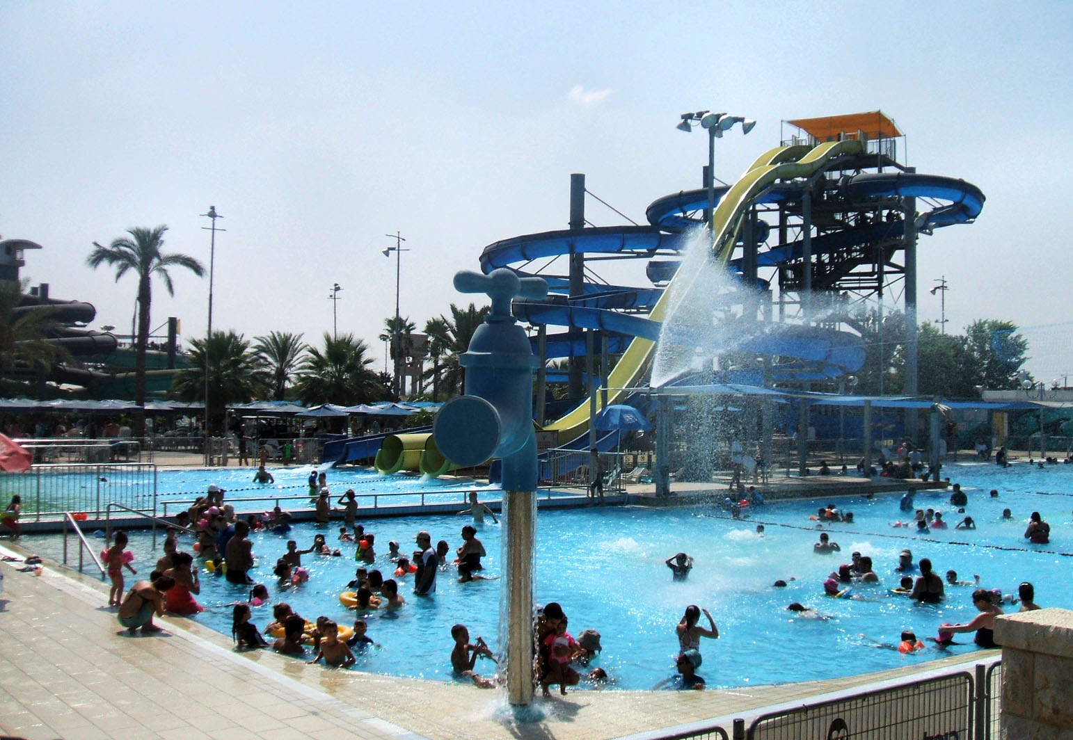 Yamit 2000 water park, Holon.